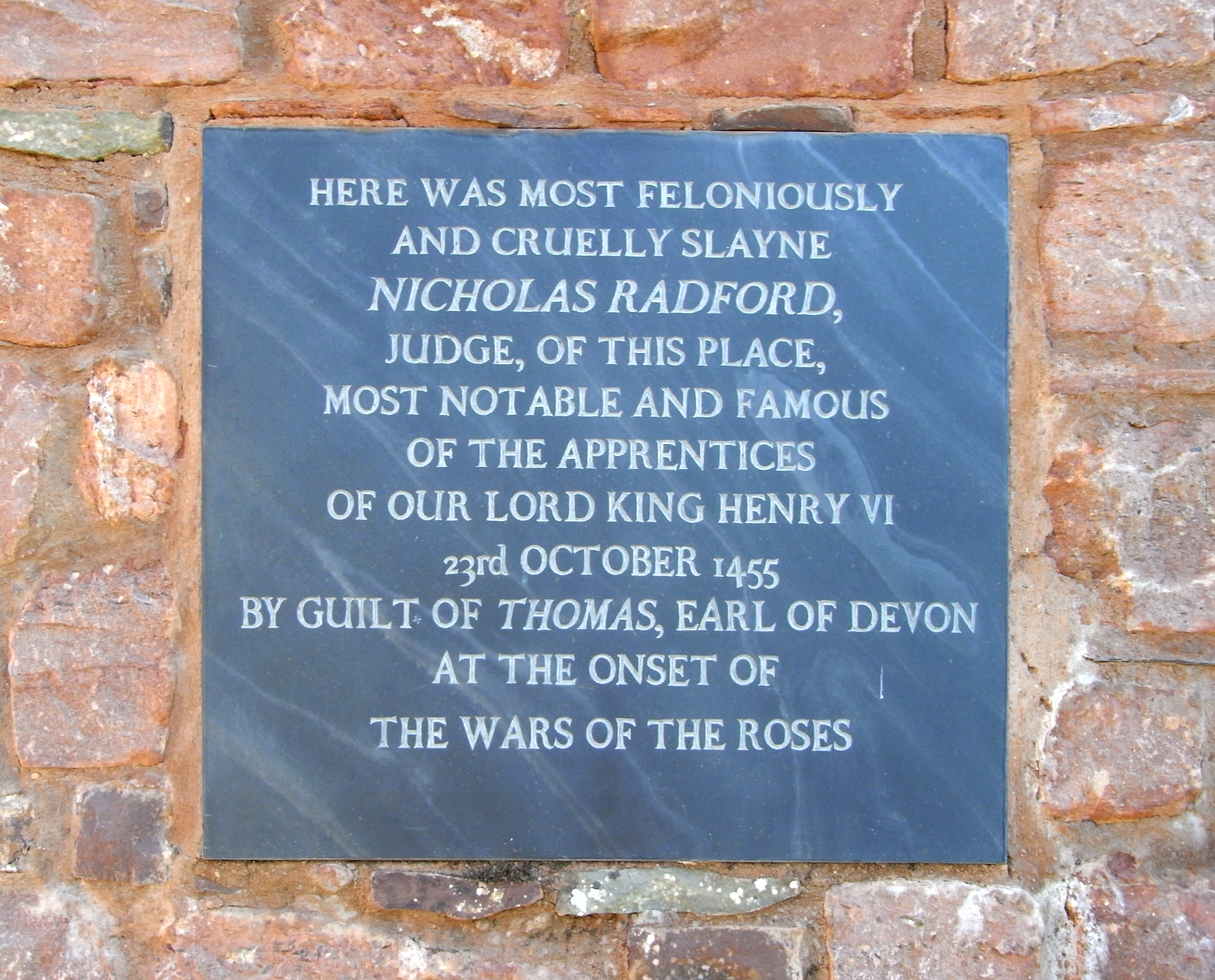 Inscribed slate tablet, UpcottBarton in the parish of Cheriton FitzPaine, Devon. Erected by owner circa 2015.